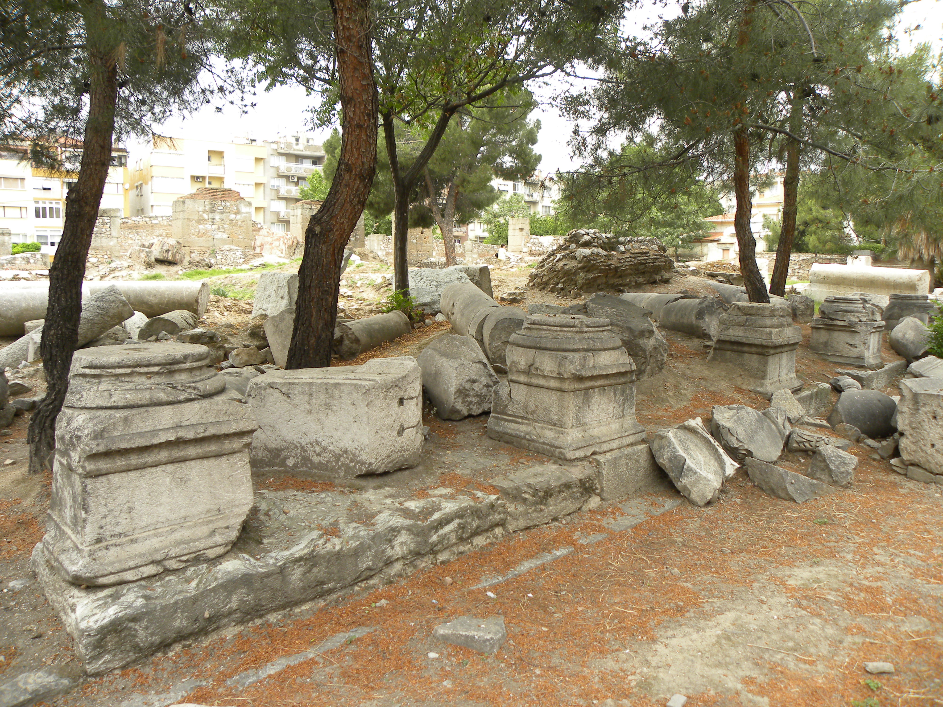 Pillar bases along the Byzantine (?) portico on one side of the agora in Thyatira.